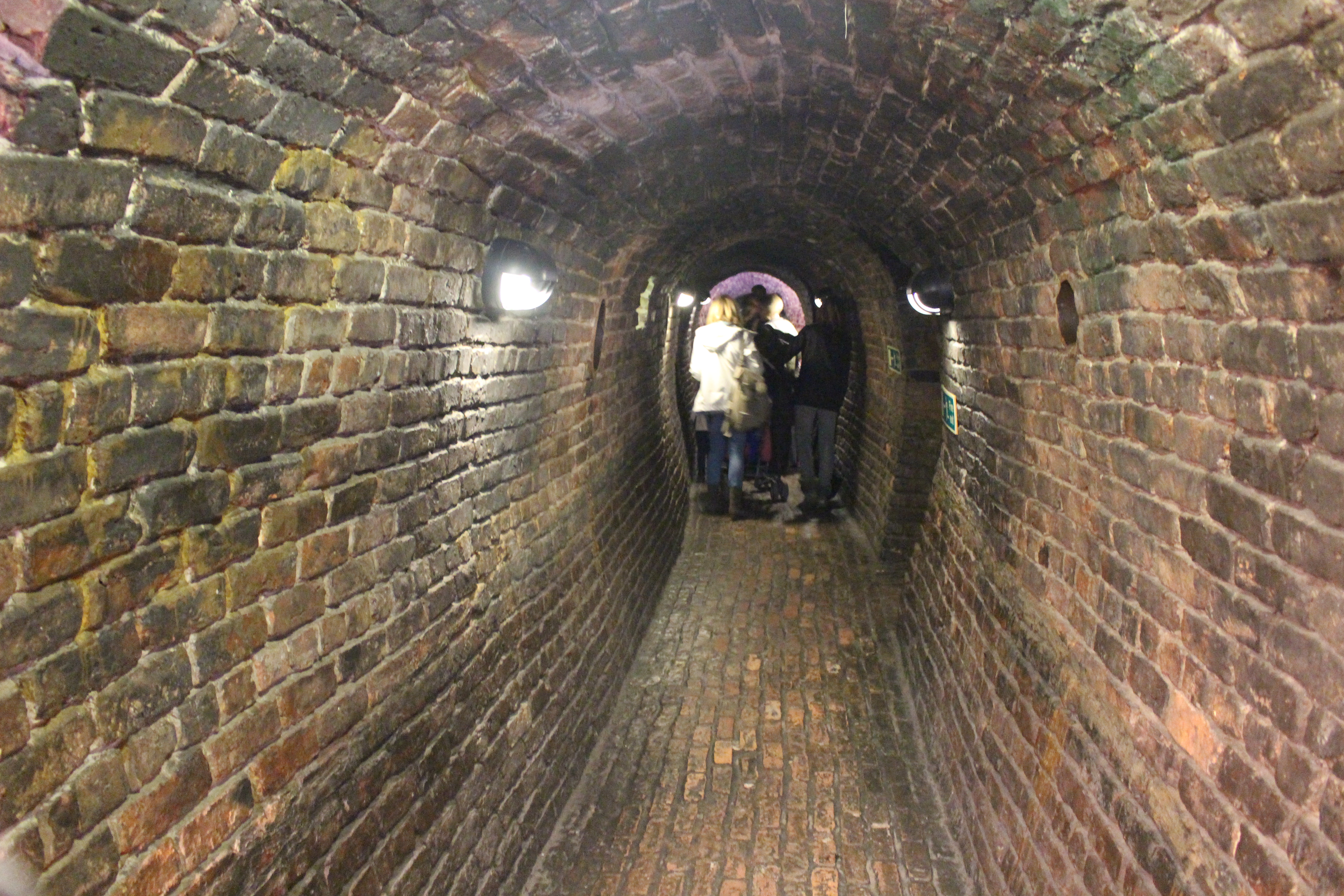 Picture taken at MOSI: Museum of Science and Industry in Manchester